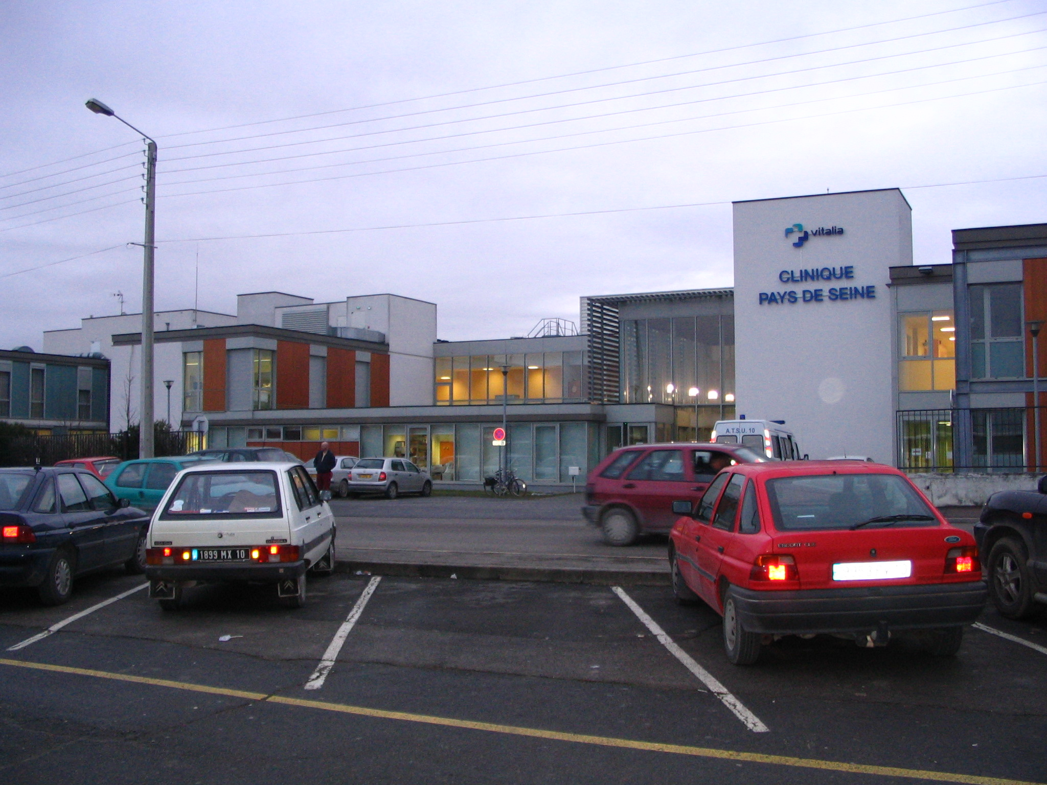 A private hospital in Romilly-sur-Seine, Aube, France.